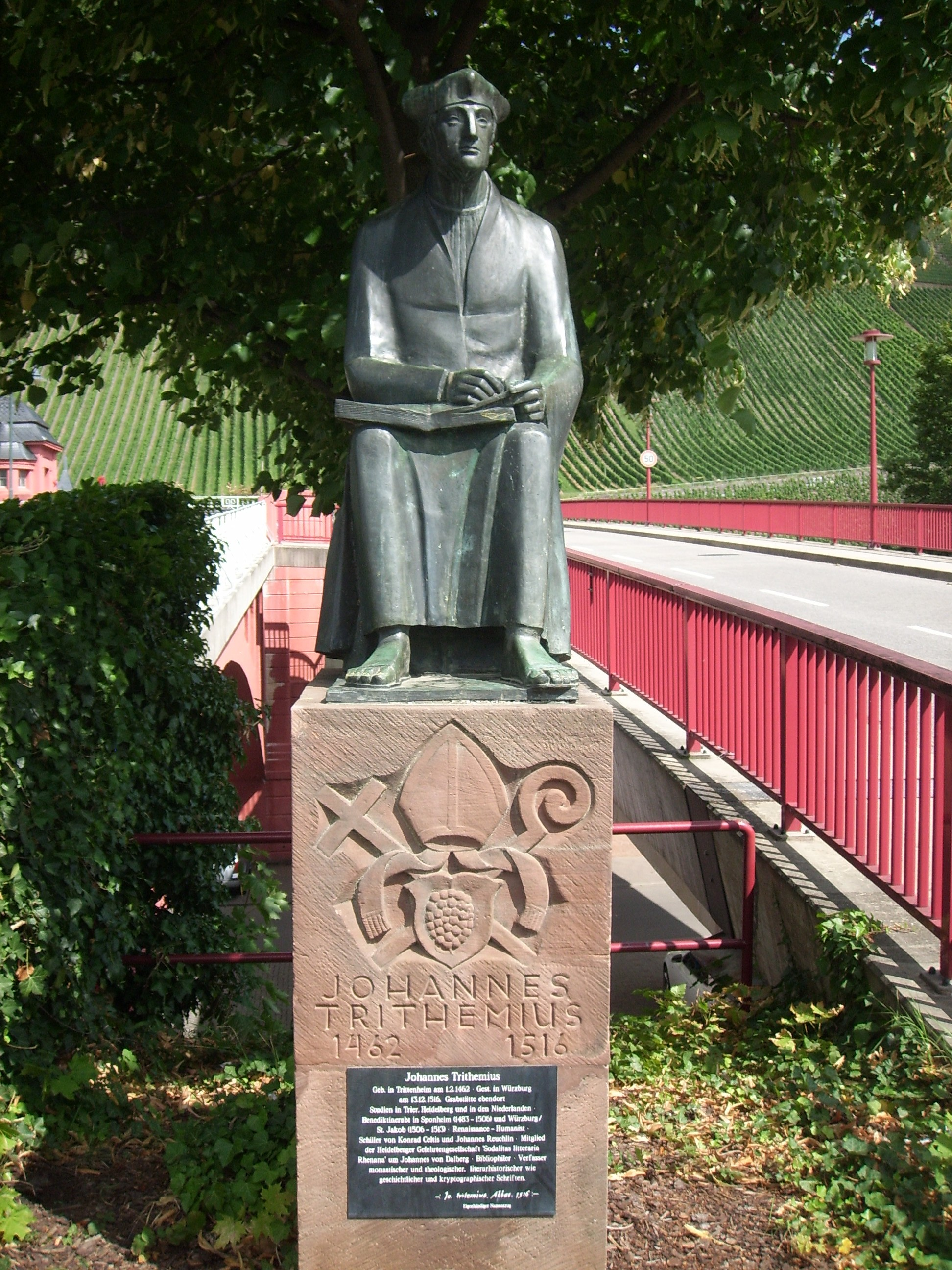 Statue of Trithemius in Trittenheim (Photo Ruben A. Koman, 2011)